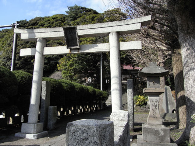 Ryukou-myoujin-sha(past) is a Shinto shrine. This was founded in 553, the oldest shrine of Kamakura, Japan. The shrine had been moved to another location.